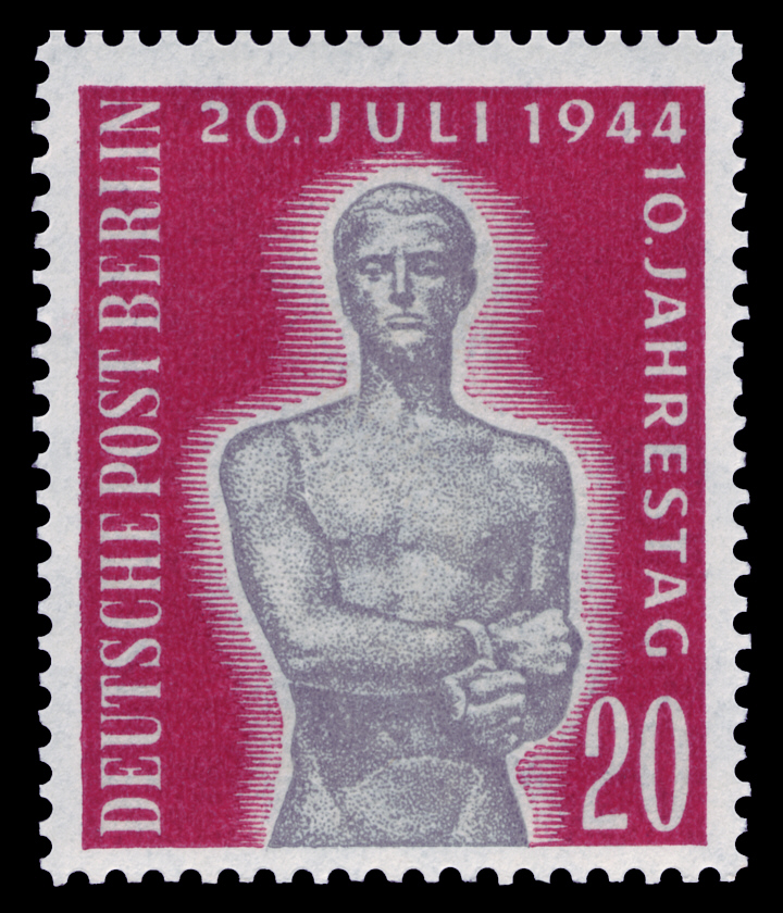 Memorial stamp for the failed attempt against Adolf Hitler at Juli, 20th 1944 Graphics by Gerhardt Ausgabepreis: 20 Pfennig First Day of Issue / Erstausgabetag: 20. Juli 1954 Michel-Katalog-Nr: 119 (Berlin)